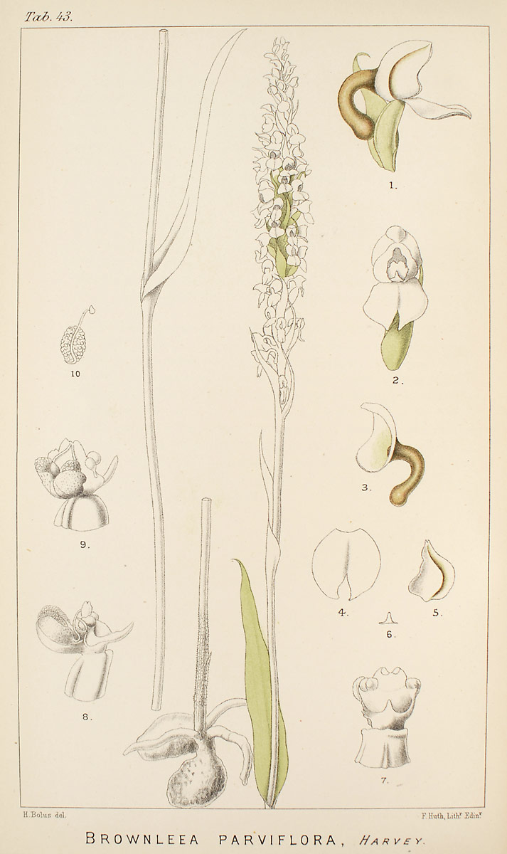 Illustration of Brownleea parviflora from Harry Bolus Icones Orchidearum Austro-Africanarum